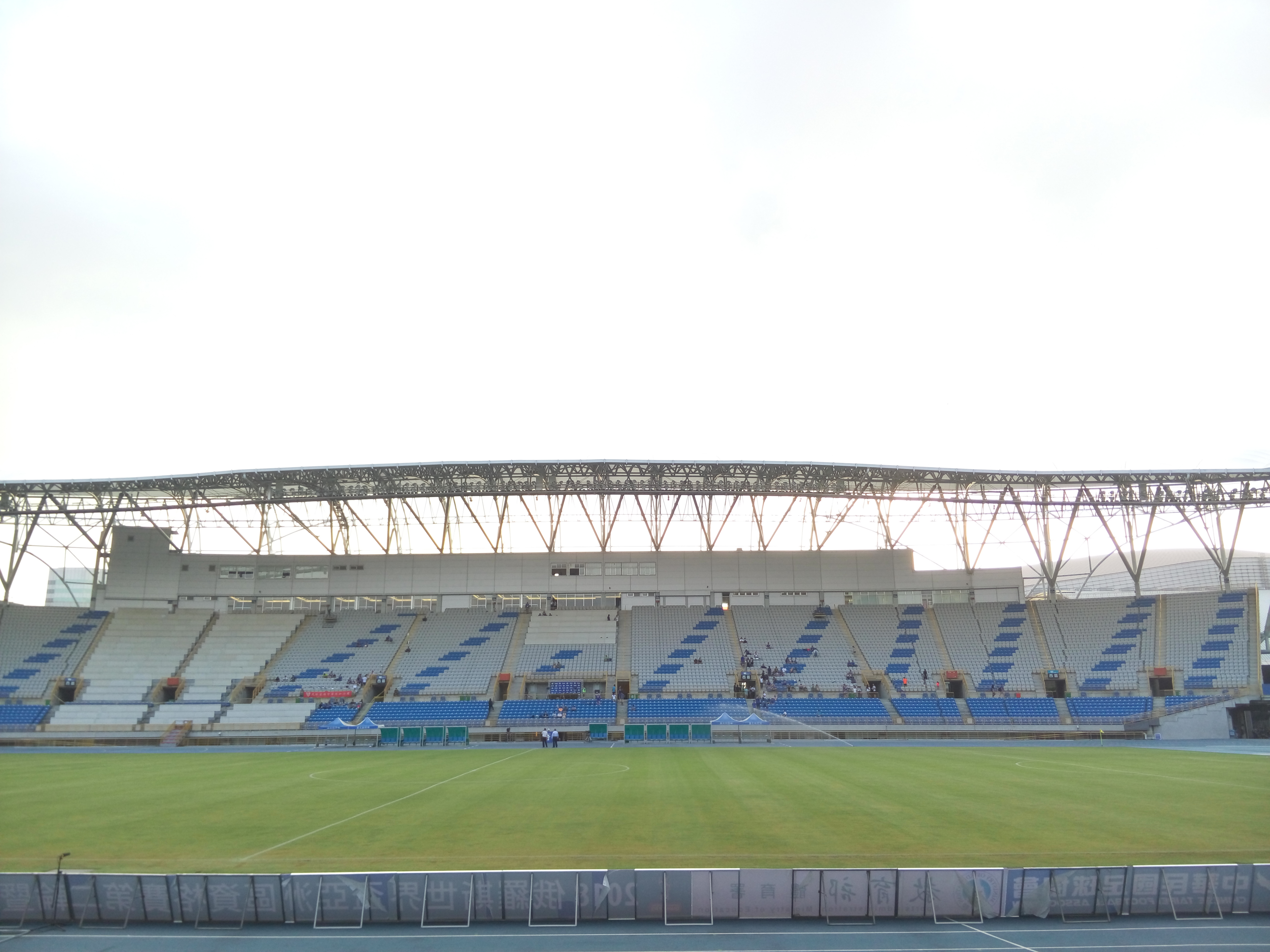 Taipei Stadium.